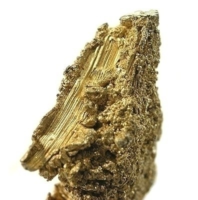 Gold Locality: Liberty, Swauk District, Kittitas County, Washington, USA (Locality at ) Size: 3.6 x 2.1 x 1.0 cm. This is a crystallized mass of 26.3 grams of pure gold, from one of the hardest-to-get US locales for specimens. This gold specimen, which weighs almost 1 ounce, is composed totally of small intergrown crystals. It is bright, lustrous, heavy and much rarer than any California gold. It is most likely 20-30 years out of the ground and specimens of this weight are very rare.